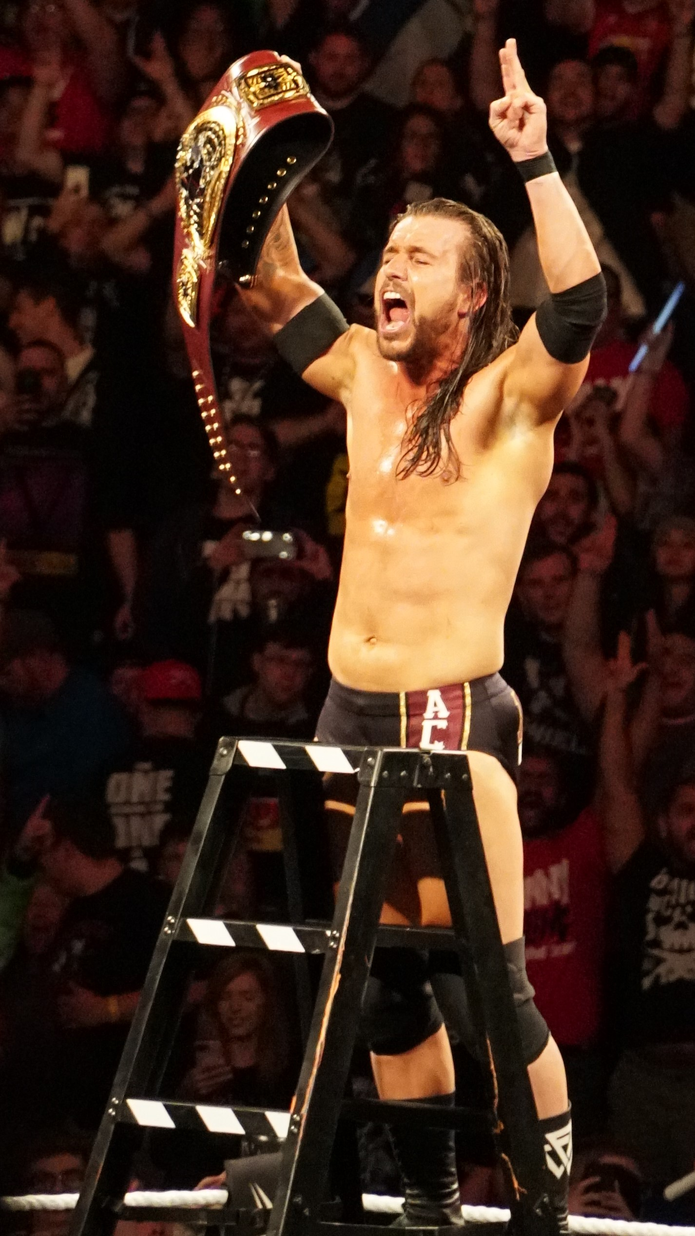 Adam Cole celebrating winning the NXT North American Championship at NXT TakeOver: New Orleans.